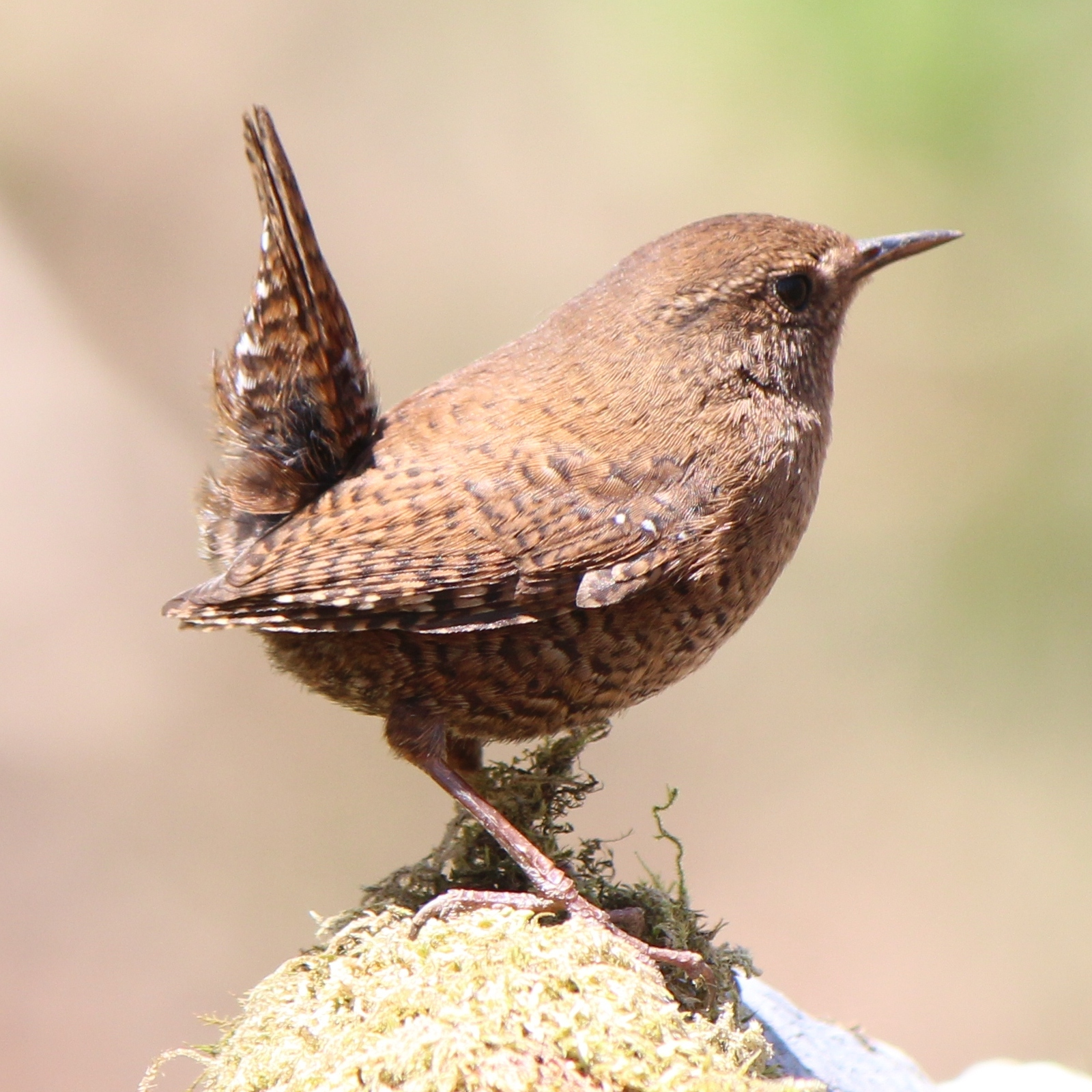 Winter wren (Troglodytes troglodytes fumigatus) in Mount Oike, Suzuka Mountains, Higashiomi, Shiga, Japan.